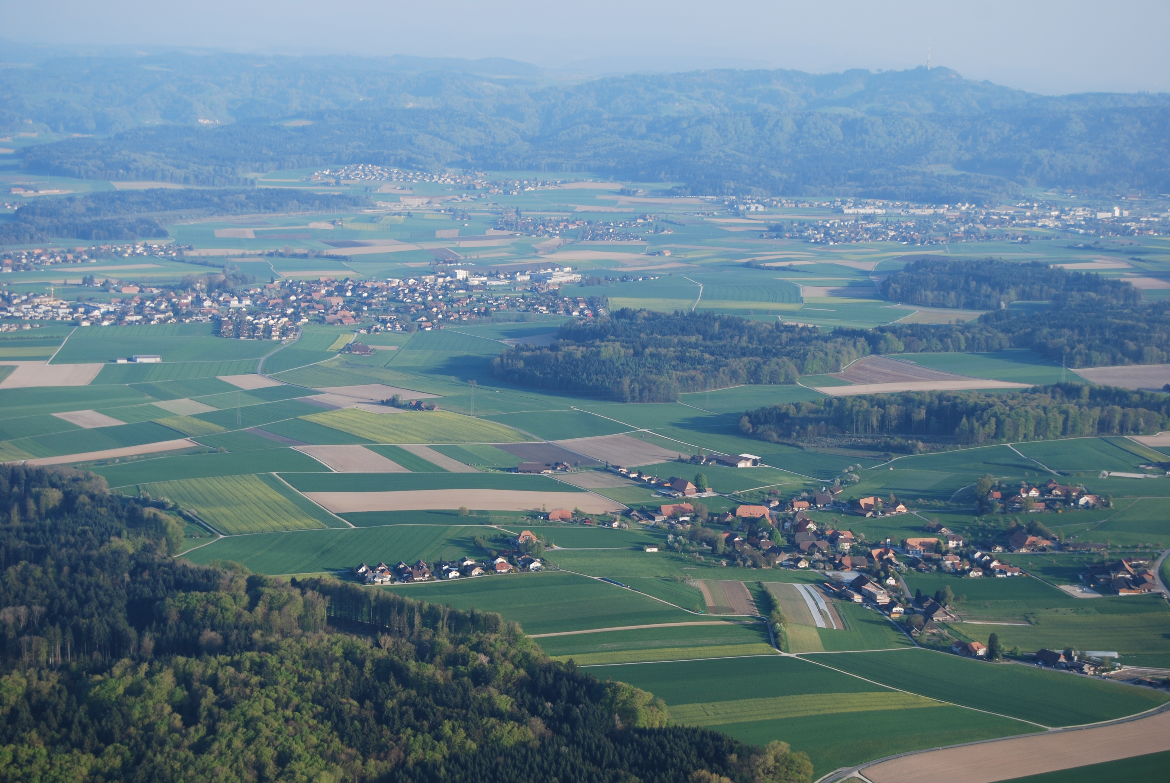 Iffwil and Jegenstorf (canton of Berne), Switzerland